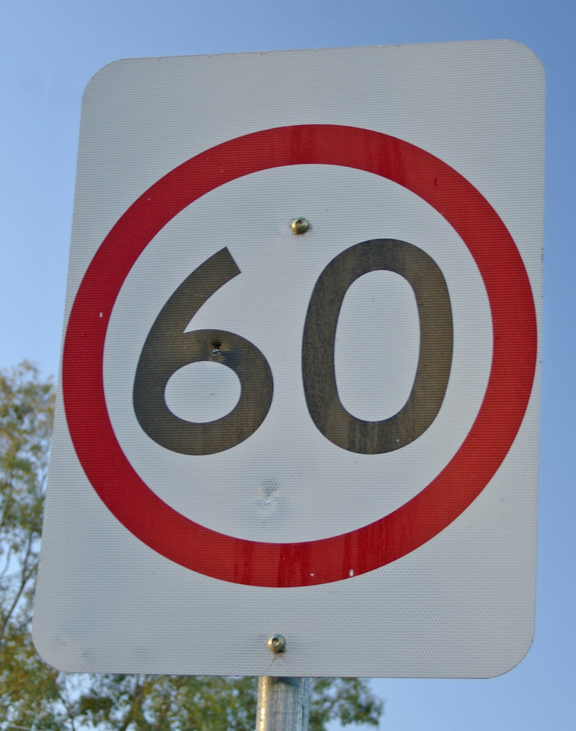 60KM/H Speed limit sign in Australia.